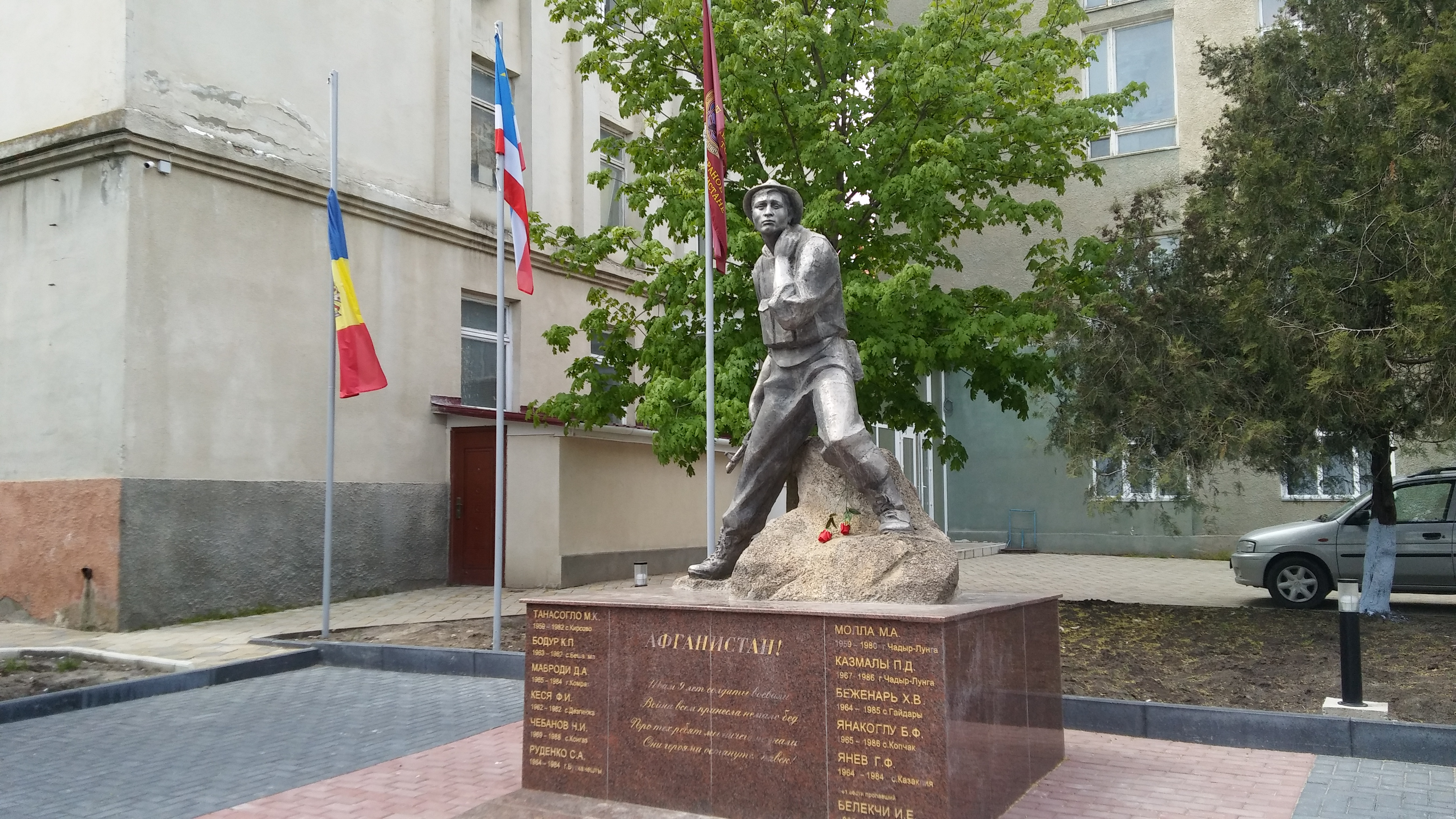 Monument Dedicated to troops suffered in Afghanistan in 2017